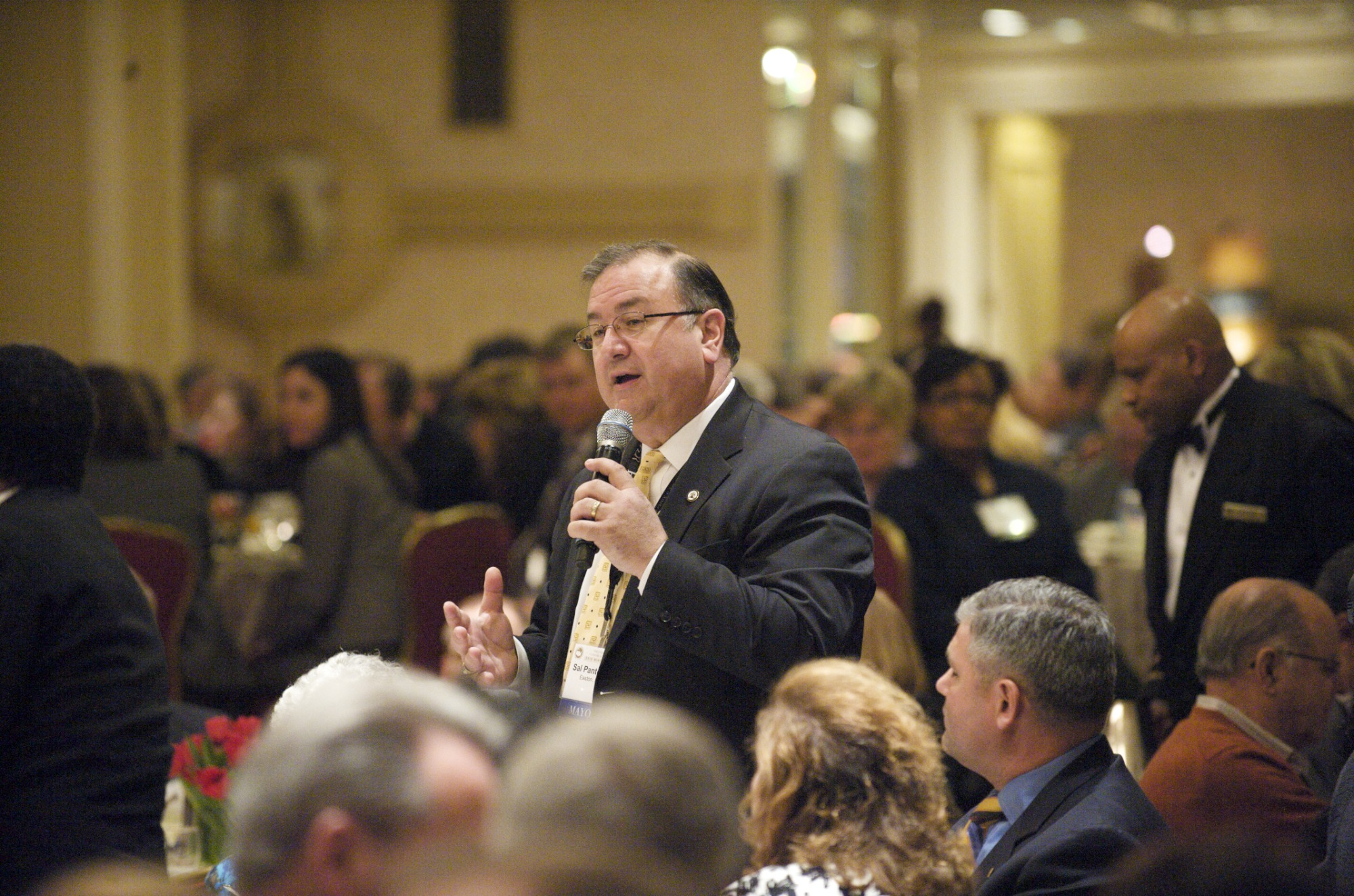 Mayor Salvatore "Sal" Panto of Easton, PA speaks at the U.S. Conference of Mayors in Washington DC